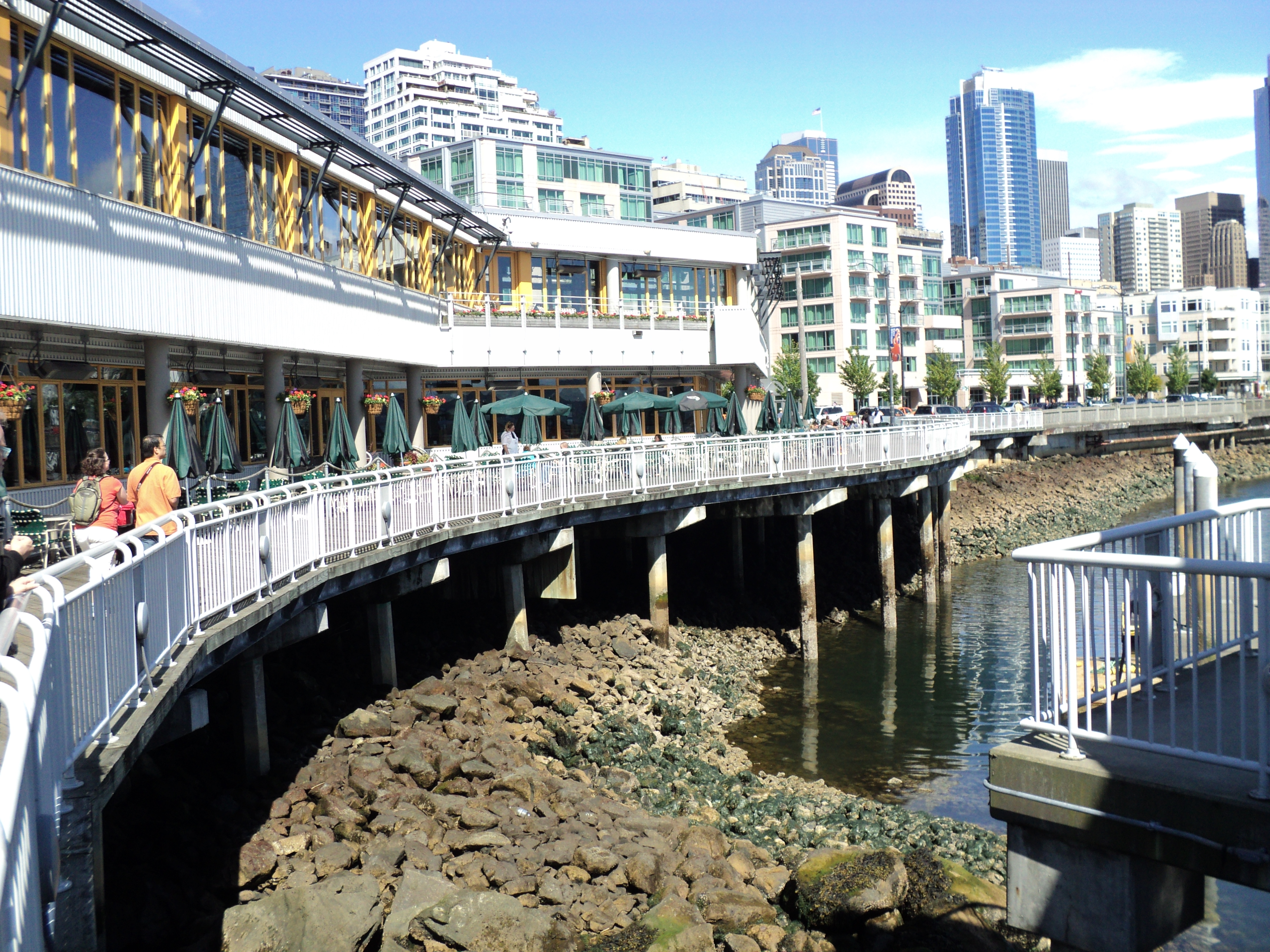 View of the waterfront side of Anthony's Home Port restaurant, and adjoining marina and terraces, Seattle waterfront, Alaskan Way, downtown Seattle, Washington.